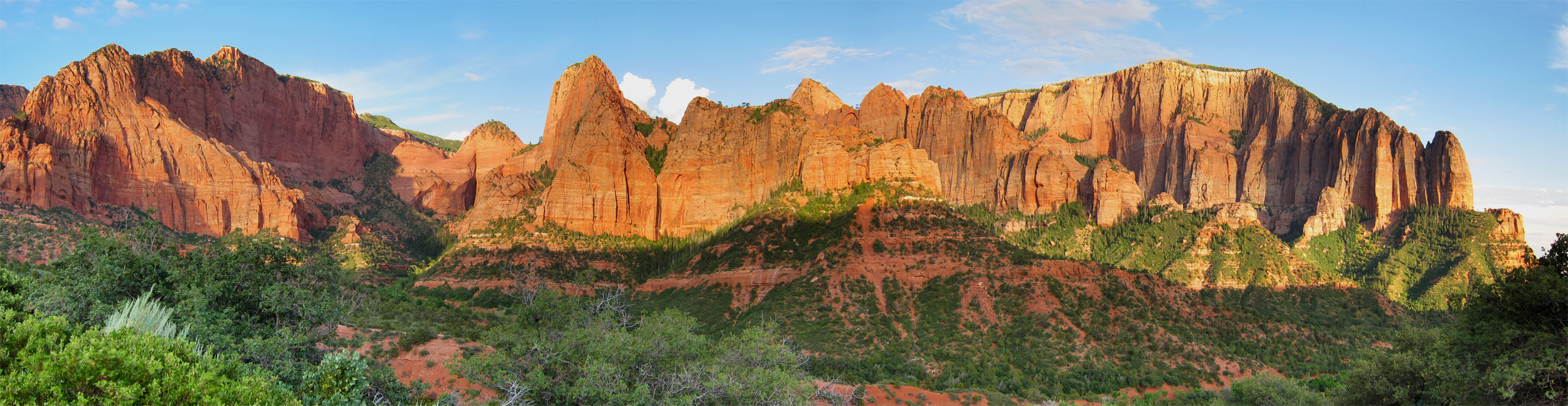 Panoramic image of Kolob Canyons, Zion National Park, Utah